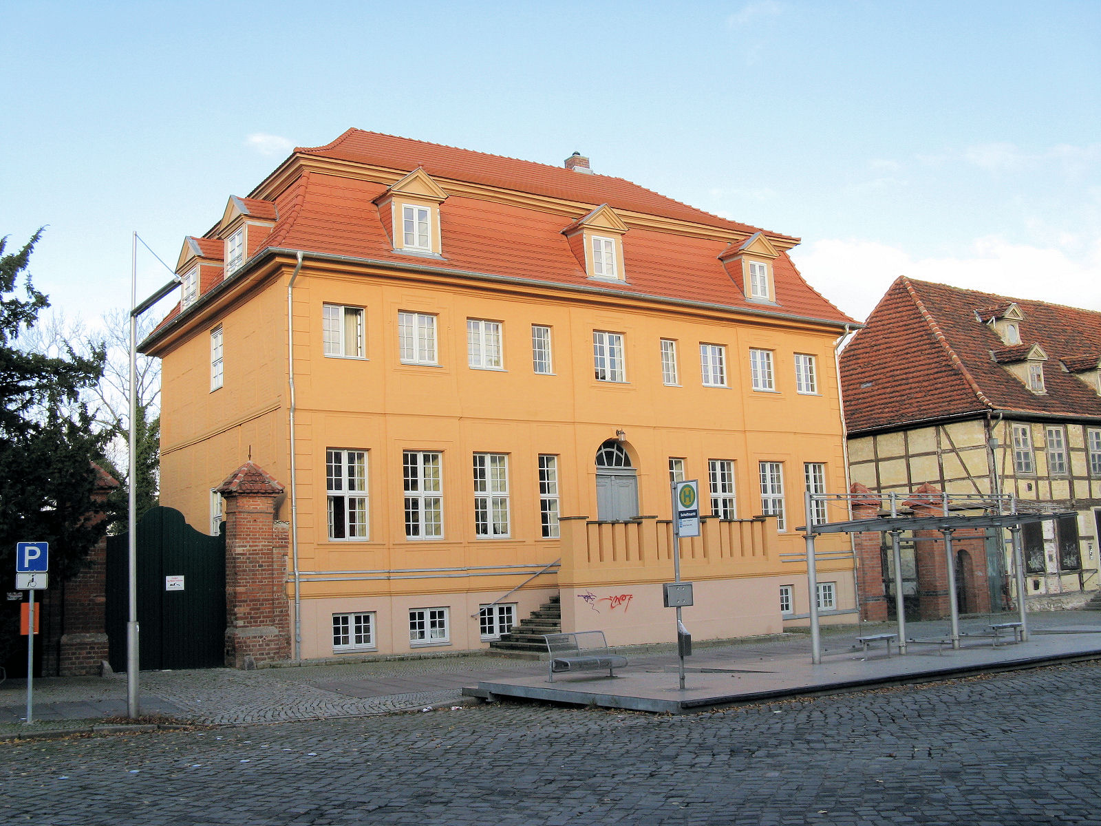 Neustädtisches Rathaus (former town hall of Schwerins borough "Schelfstadt"), Schwerin, Germany.